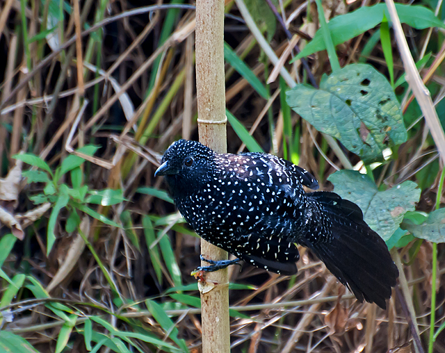 A Large-tailed Antshrike in Piraju, São Paulo, Brazil.